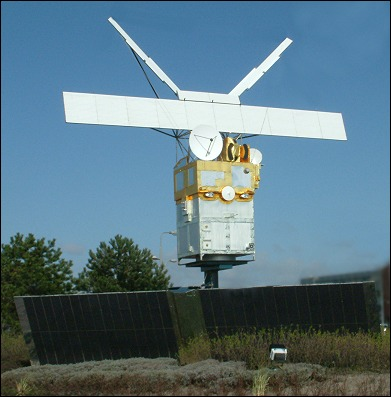 Model of European Remote Sensing Satellite (ERS) in original size. See spotlight in foreground as reference for size.